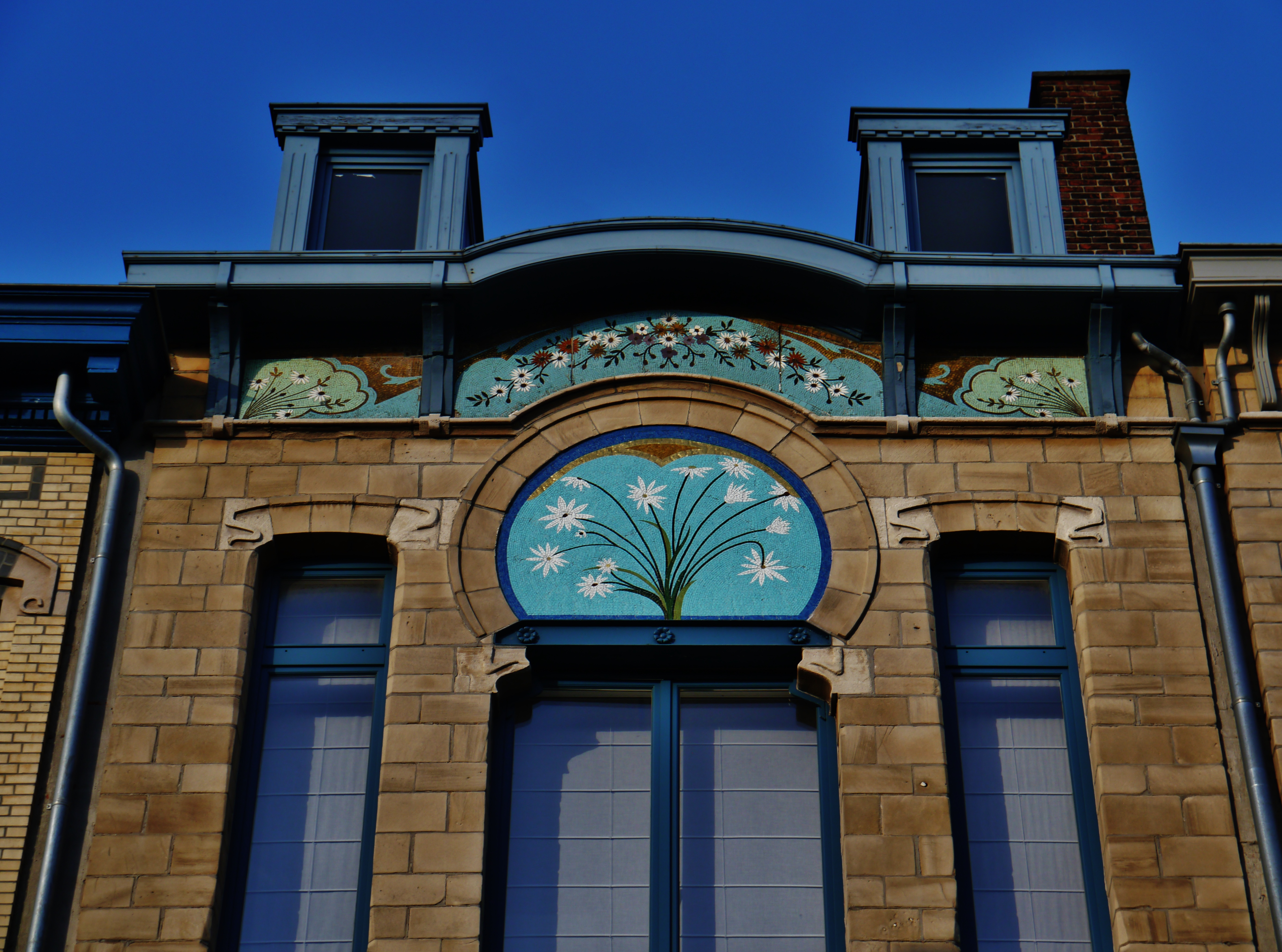 Art Nouveau Architecture in Waterloo Street, Antwerp, Province of Antwerp, Flanders, Belgium